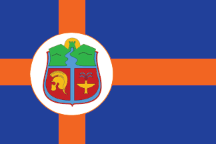 Flag of Zaječar